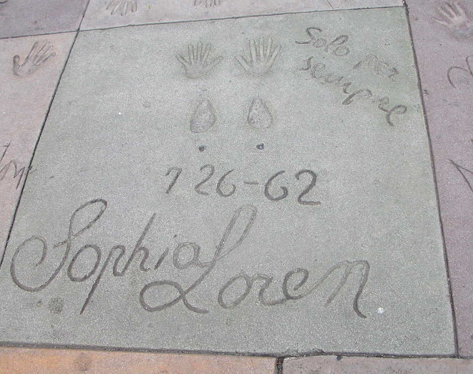 Sophia Loren's footprints at the Grauman's Chinese Theatre, Los Angeles (California)